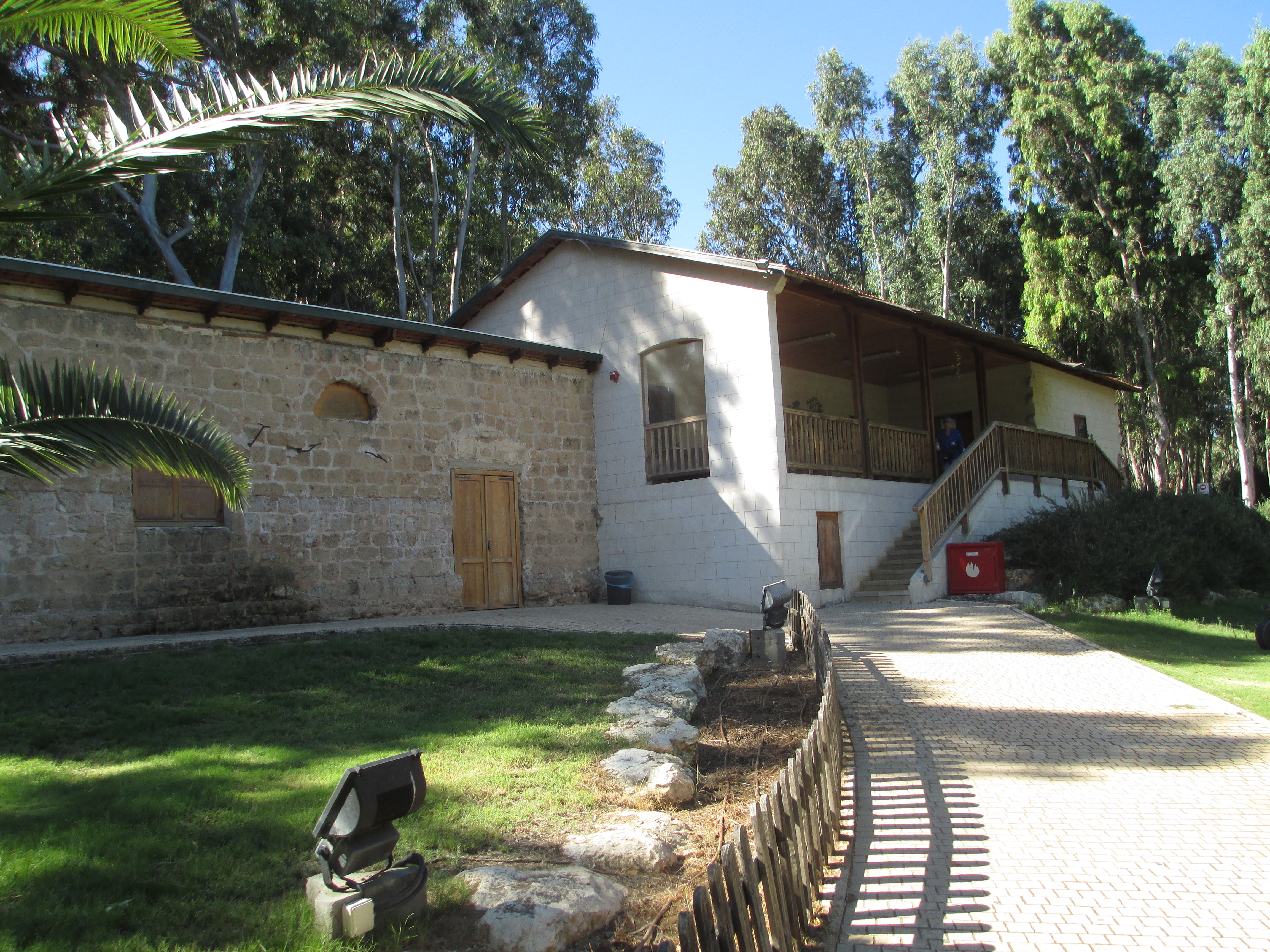 Heftzi-Ba Farm